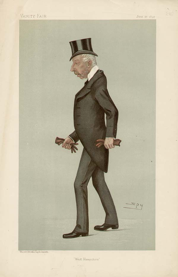 Caricature of Mr William Wither Bramston Beach MP. Caption read "West Hampshire".